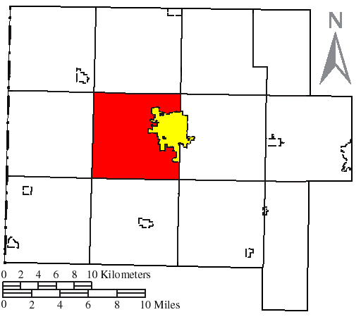 Made by the US Census and modified by myself